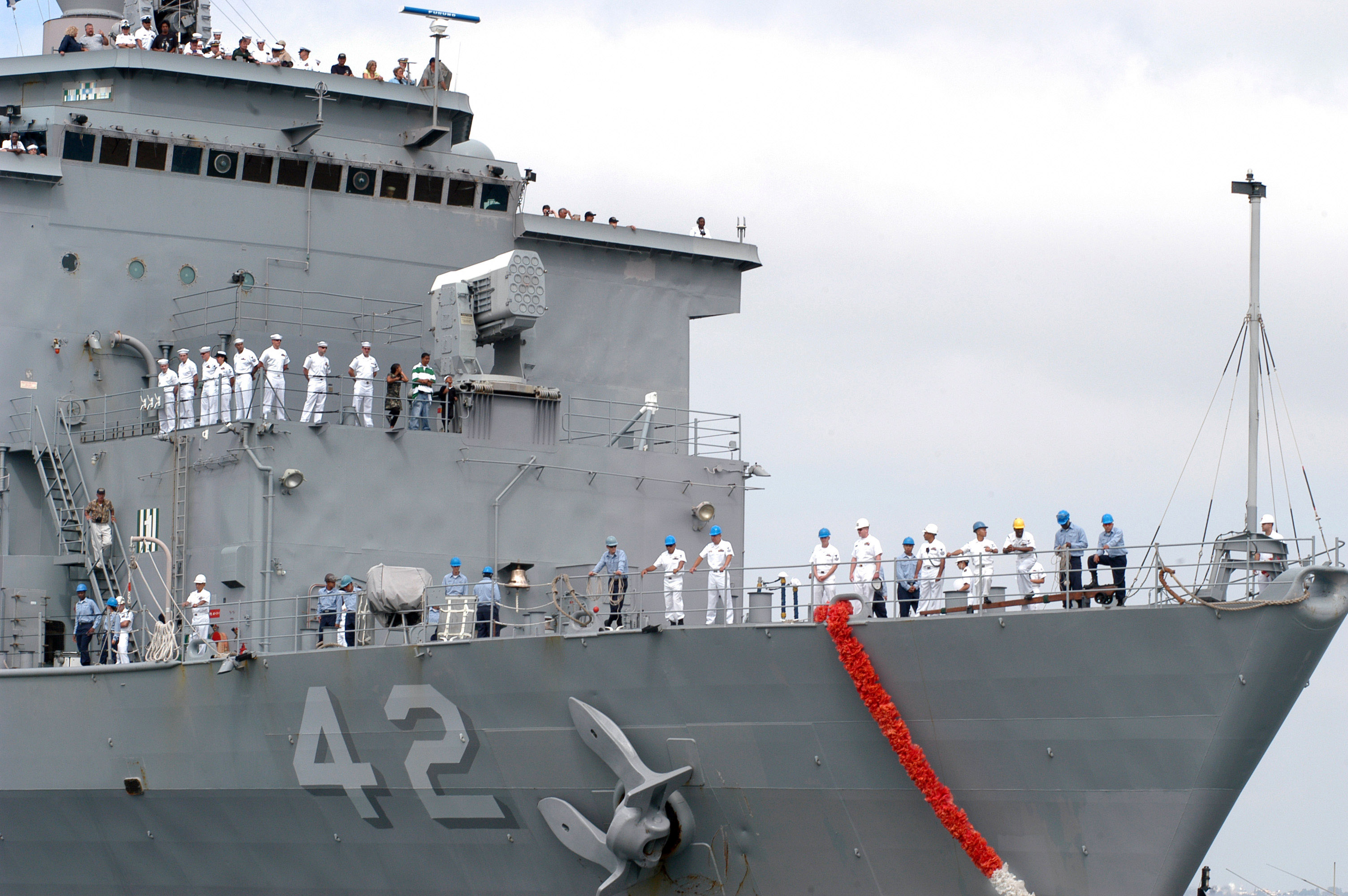 060816-N-6999H-007 San Diego - Sailors man the rails aboard the dock landing ship USS Germantown (LSD 42) as it pulls in its homeport at Naval Base San Diego. Germantown, part of Expeditionary Strike Group Three (ESG-3), returned to San Diego after successfully completing a six month deployment in support of the global war on terrorism and maritime security operations (MSO).